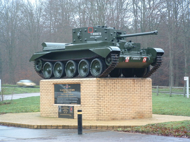 Memorial To 7th Armoured Division Desert Rats A memorial to the 7th armoured division desert rats at the side of the A1065 near to Ickburgh Norfolk. More info